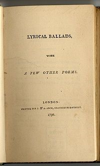 Насловна страна првог издања Лирских балада